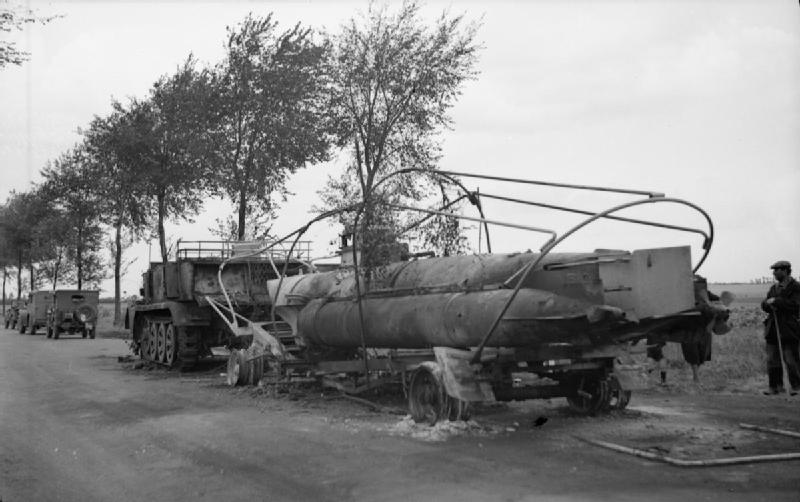 The British Army in North-west Europe 1944-45 The remains of a German midget submarine, abandoned by the roadside by retreating German forces near Arras, France.